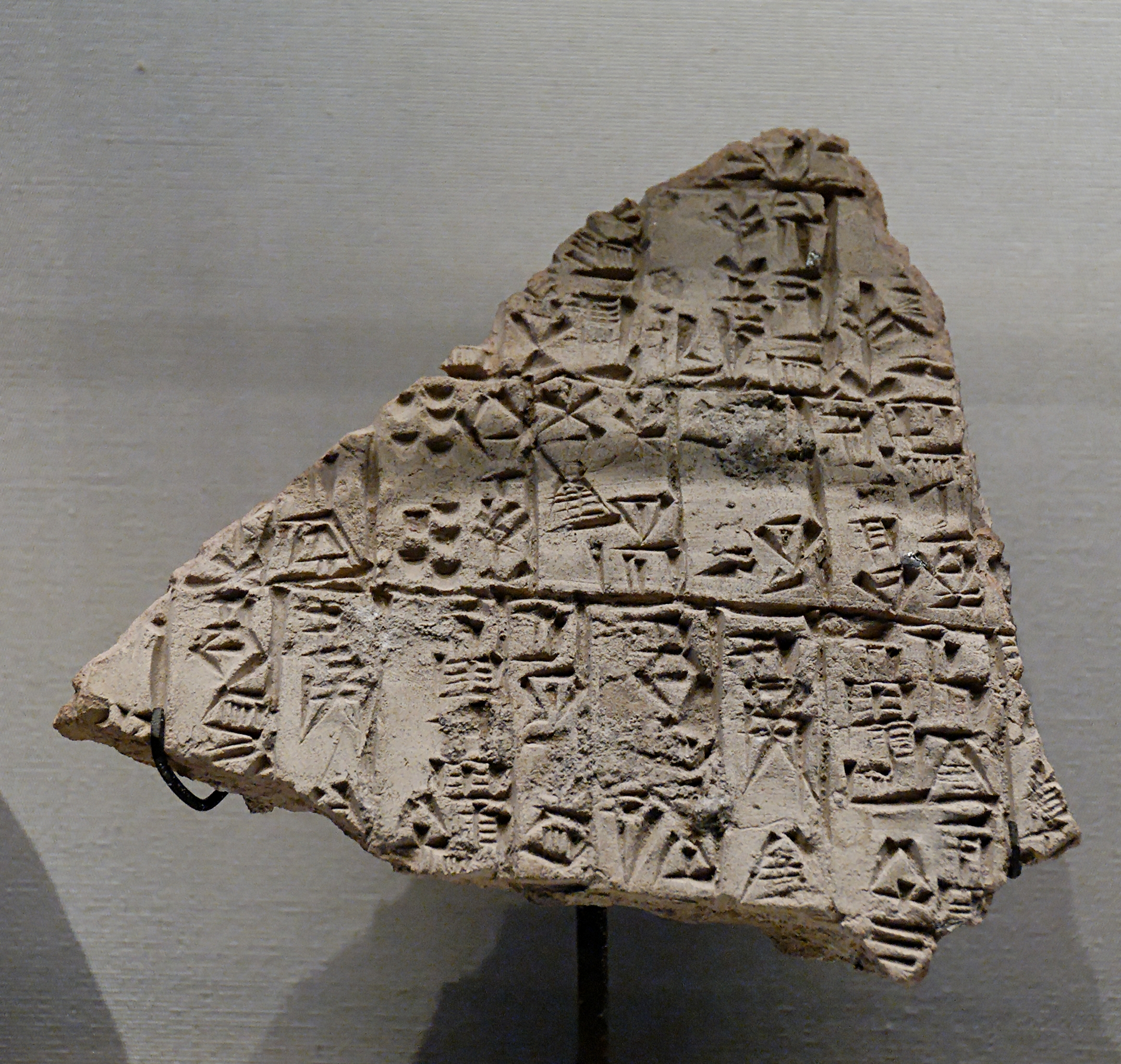 Historical cone about the frontier conflict between Lagash and Umma. The inscription reads: "(…) may your city be destroyed—surrender! May Umma be destroyed—surrender!" Archaic Dynasties III.